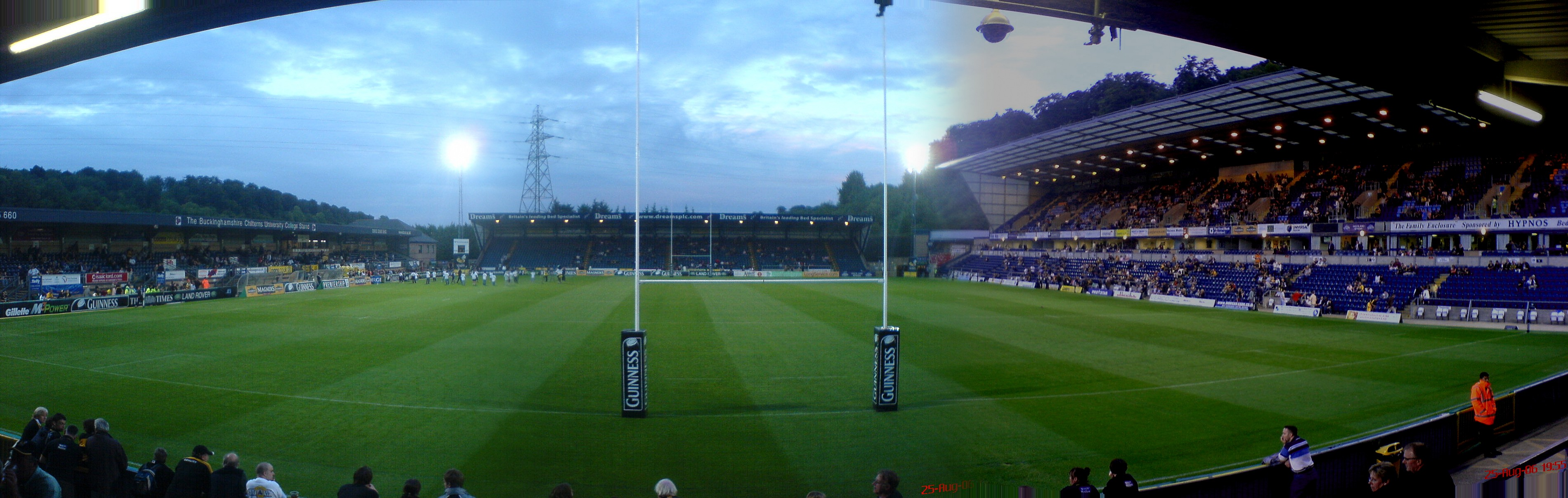 Adams Park in High Wycombe (England), stadium of Wycombe Wanderers and London Wasps. This photo was taken by Atomicwasp before the London Wasps vs Border Reivers rugby union match on August 25th 2006.